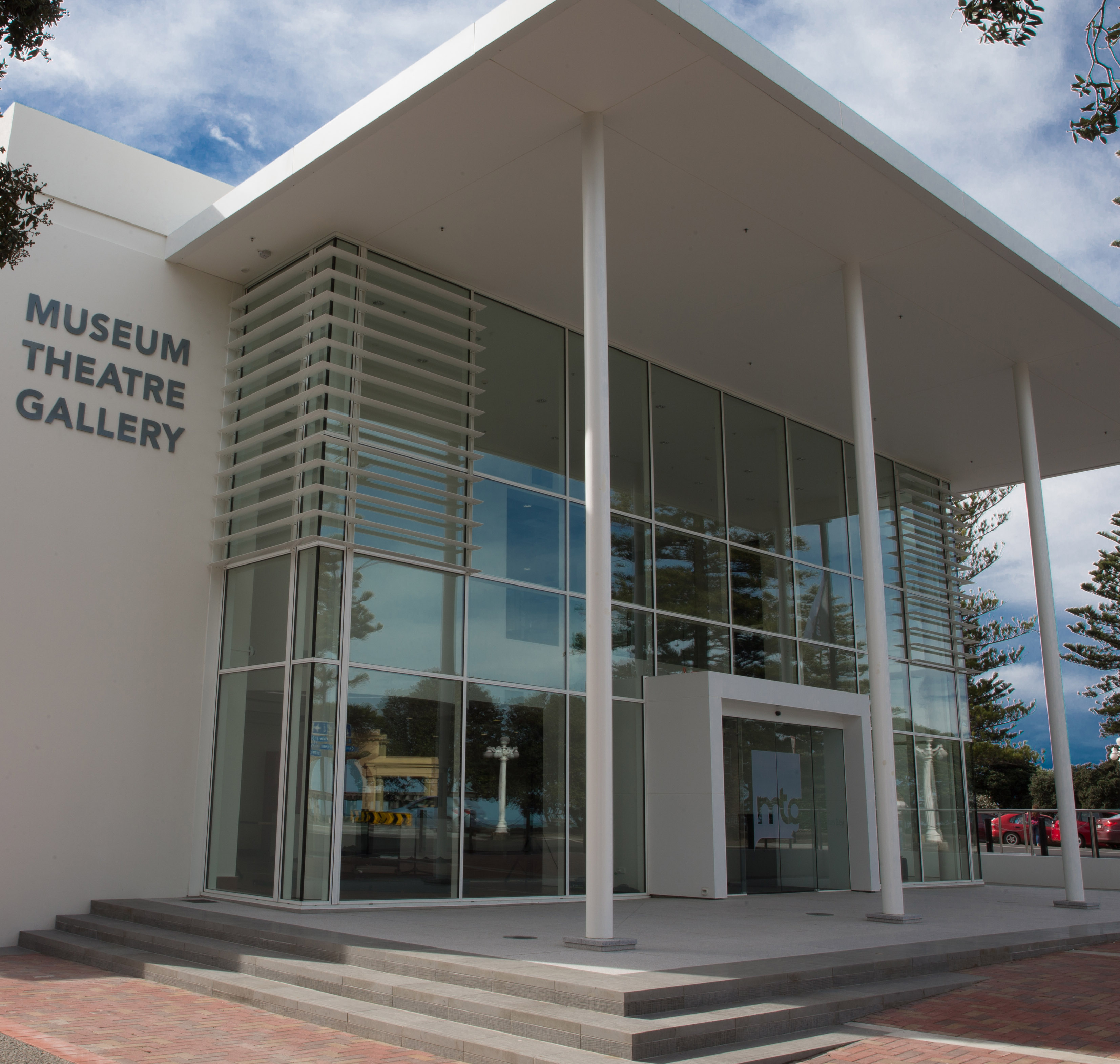 An image of the exterior of MTG Hawke's Bay in Napier, New Zealand